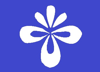 Flag of Nagai Yamagata